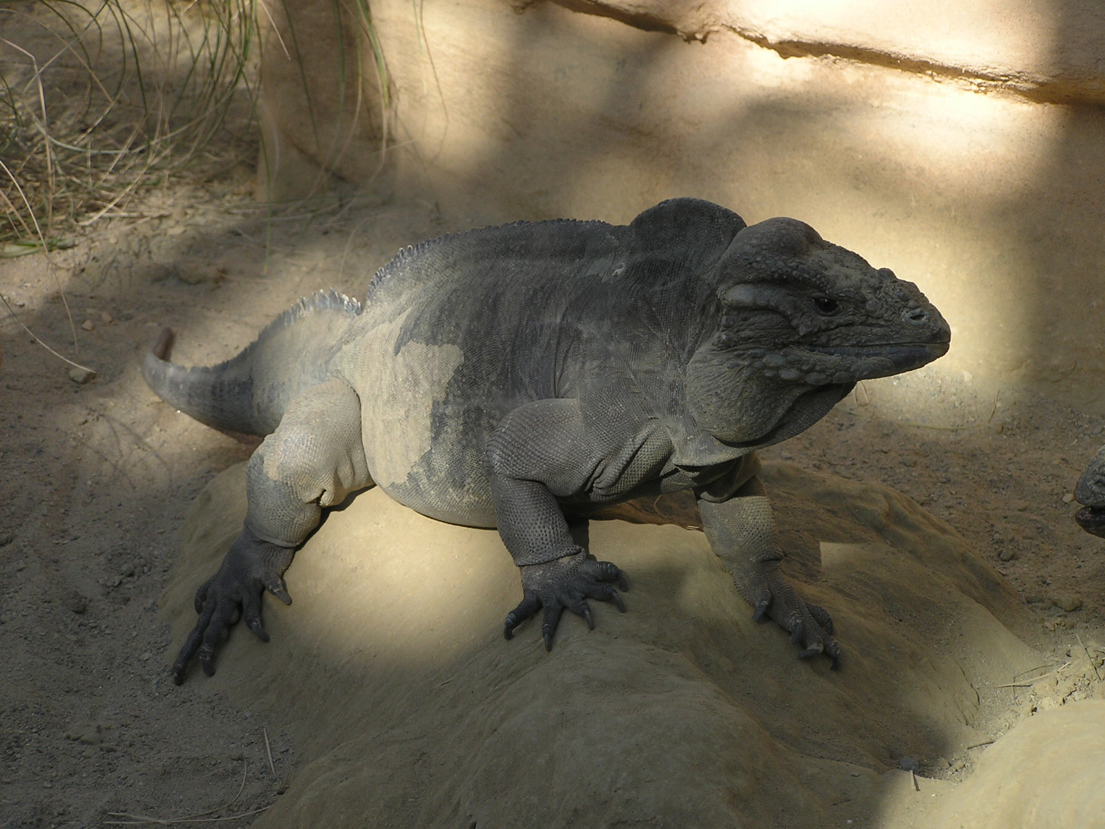 A male Rhinoceros Iguana at the zoo in Berne, Switzerland. I took this photograph on March 16, 2005 with an Olympus C750 UZ digital camera.